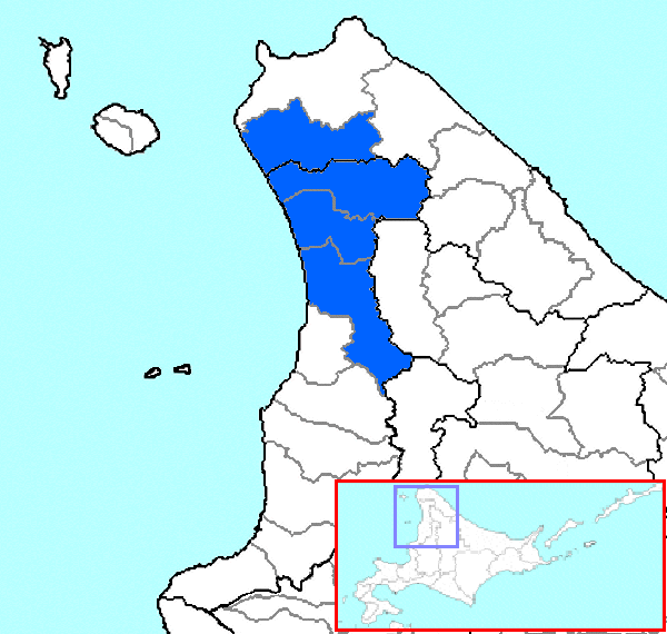 The location of Teshio District in Rumoi and Soya Subprefecture, Hokkaido Prefecture, Japan.